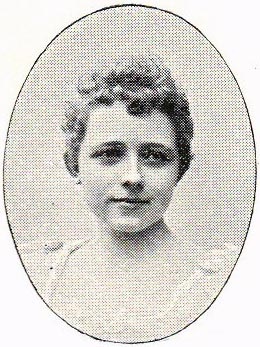 Hildegard Lindzén (1872-?), Swedish actress and dancer.